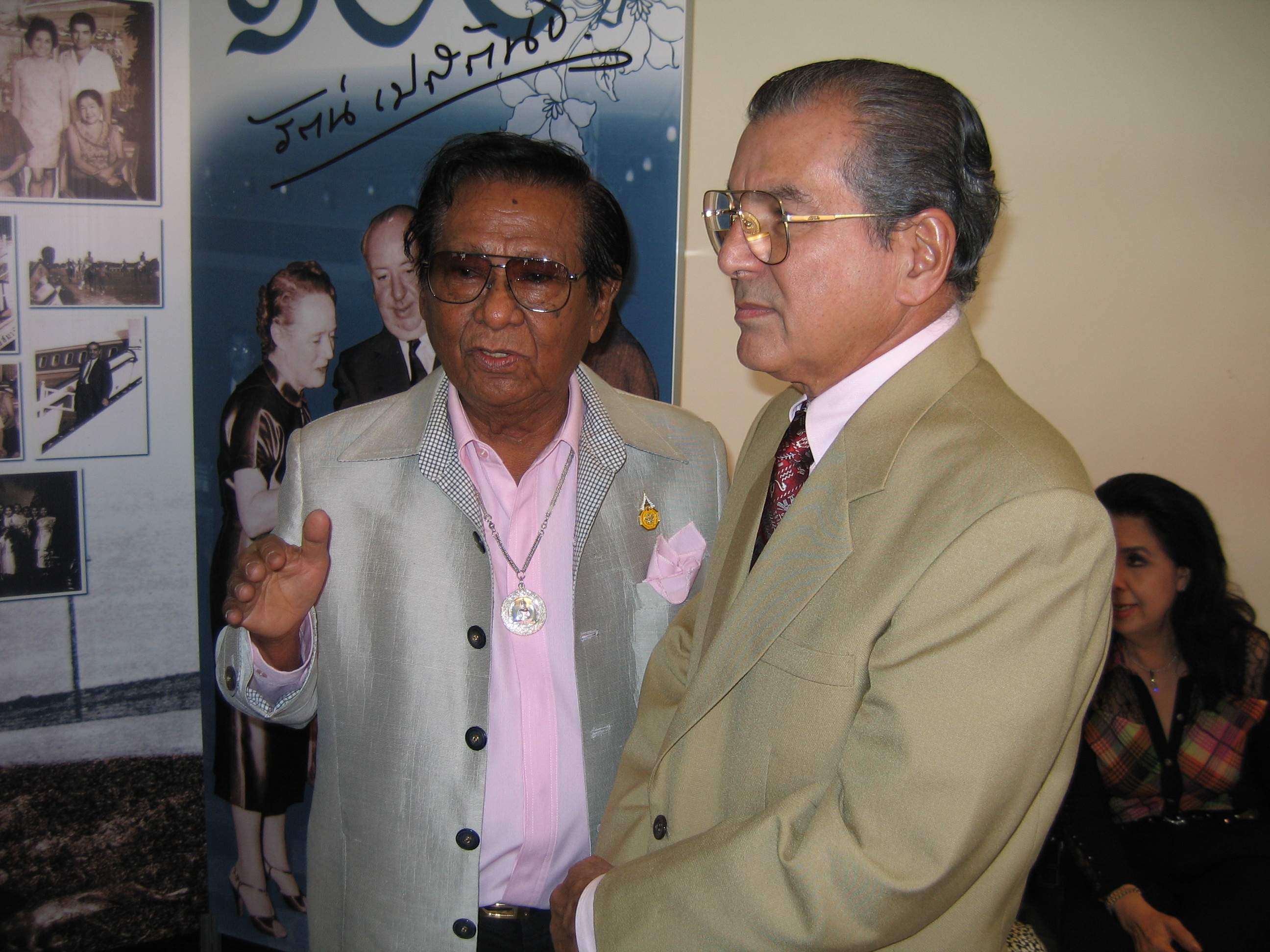 Thai film director Dokdin Kanyamarn with Edel Pestonji, son of Rattana Pestonji at the National Film Archive of Thailand on the 100th birth anniversary celebration for Rattana.